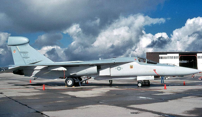 A U.S. Air Force General Dynamics EF-111A Raven (s/n 66-0023).